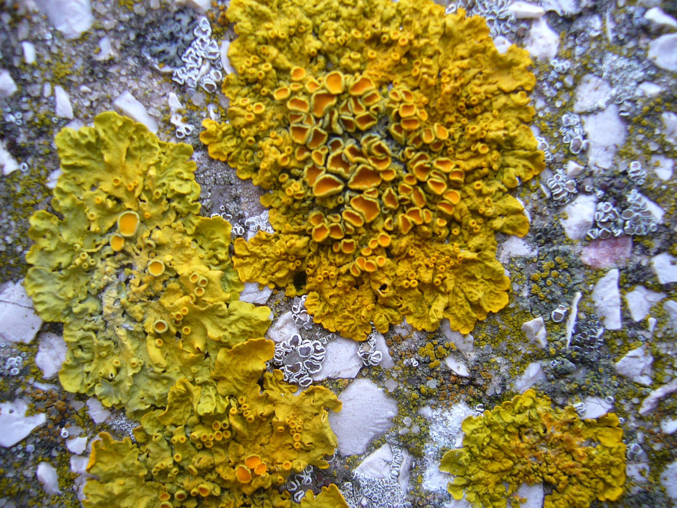 Xanthoria parietina in Corunna, Galicia, España.